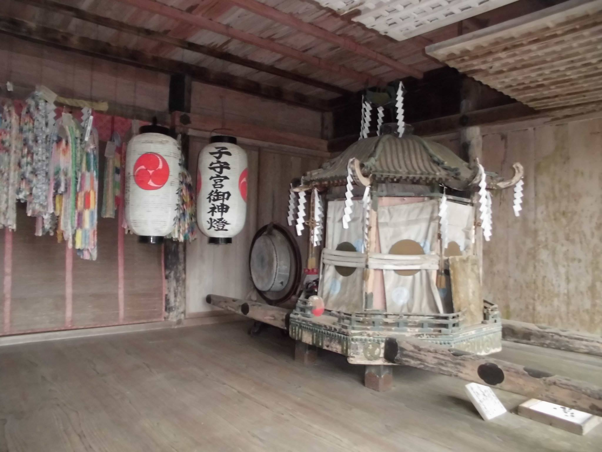 Mikokoshi in the Mikumarijinja, Yoshino (Nara Prefecture, Japan)